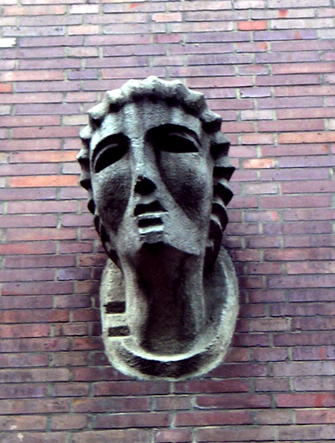 Sculptured head at the Haus der Technik in Essen, Germany, sculptured by Will Lammert